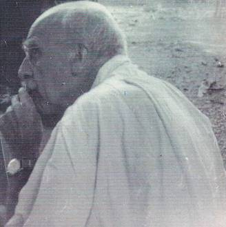 copped pic of J. B. S. Haldane to illustrate where the other person isnt appropriate, licence of original allows for cropping.